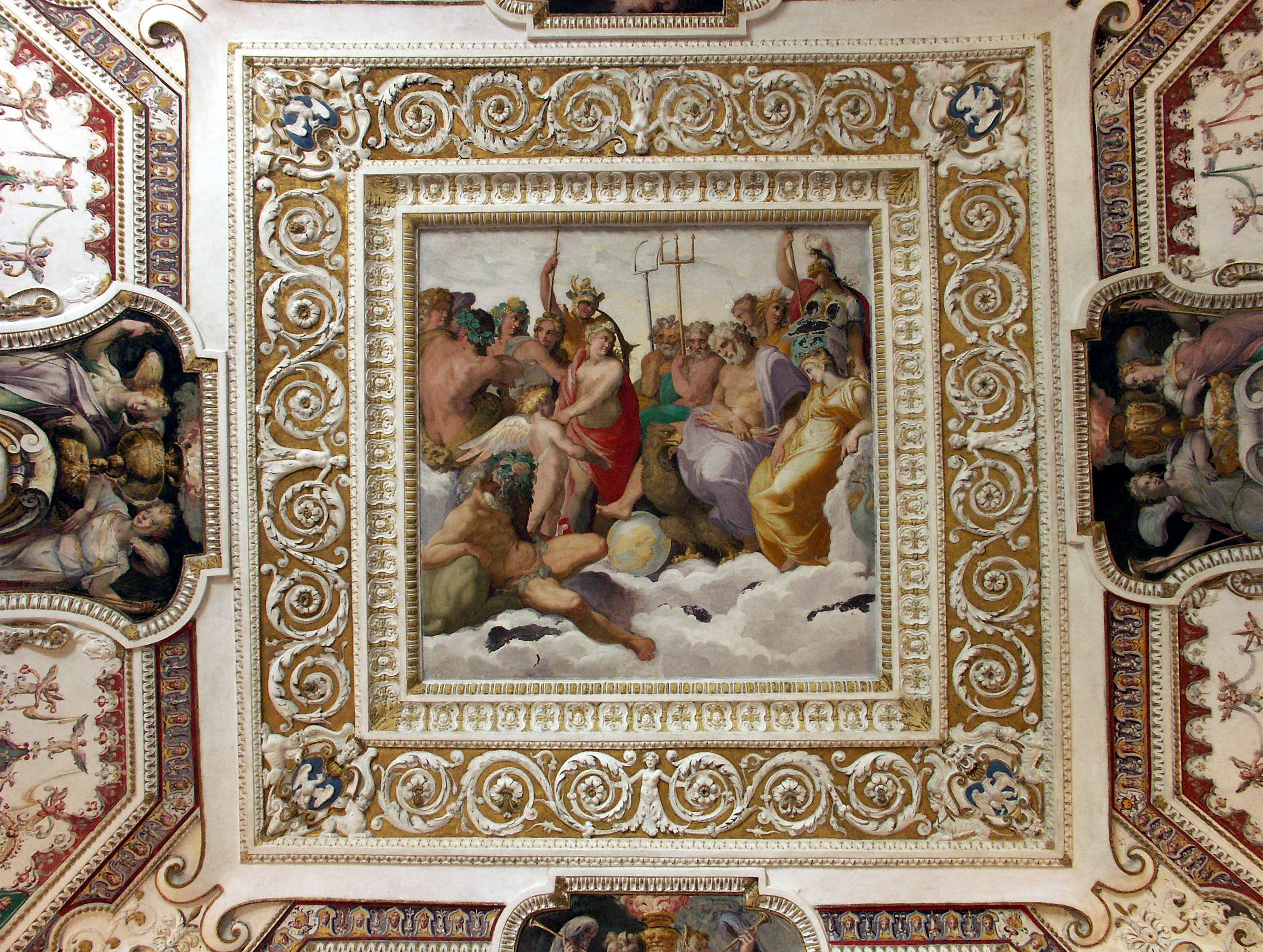 Fresco, Interior of Villa d'Este, town Tivoli, Italy